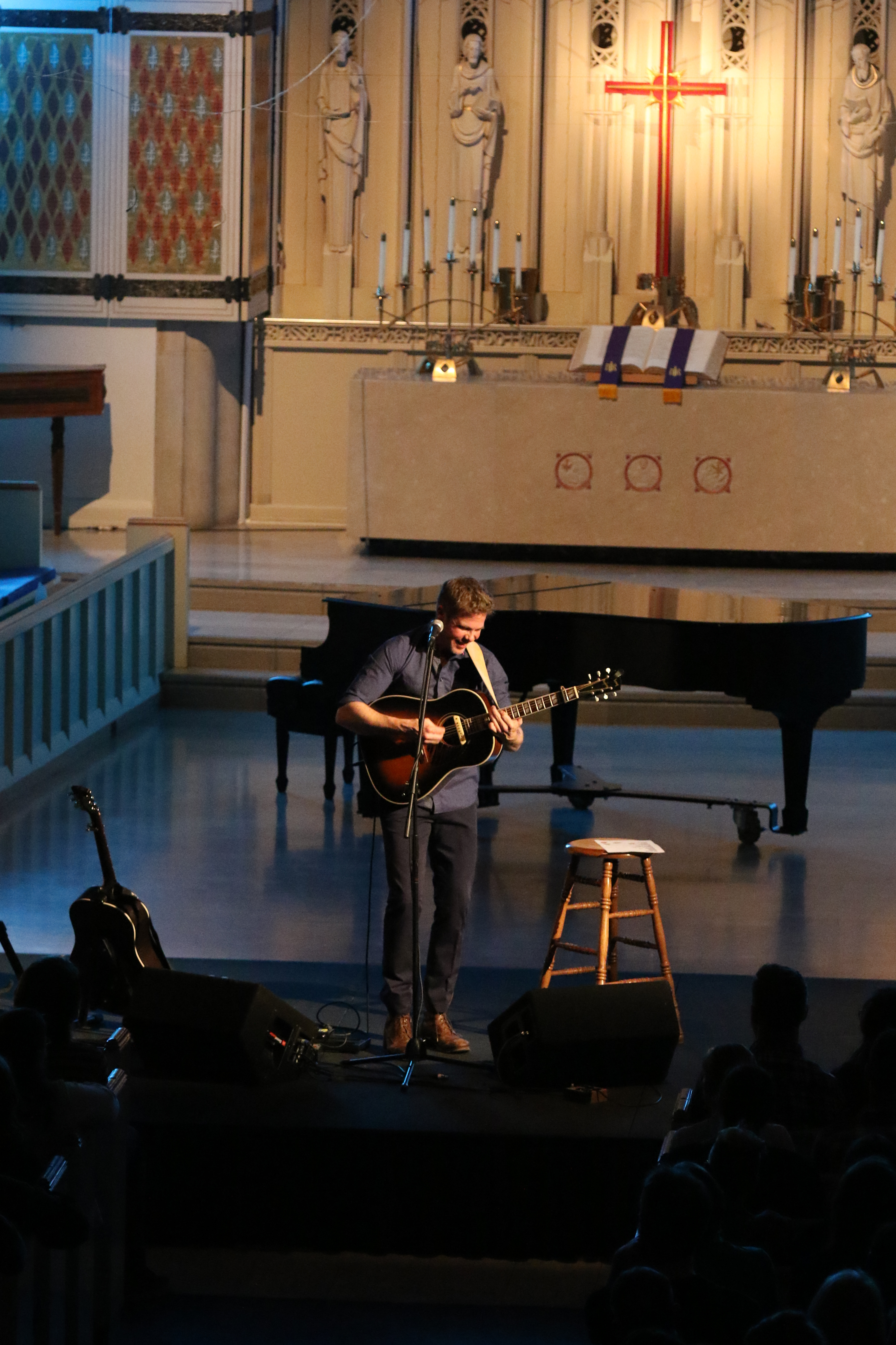 JoshRitter-Rockies-Treefort-Credit-Christina-Birkinbine 04